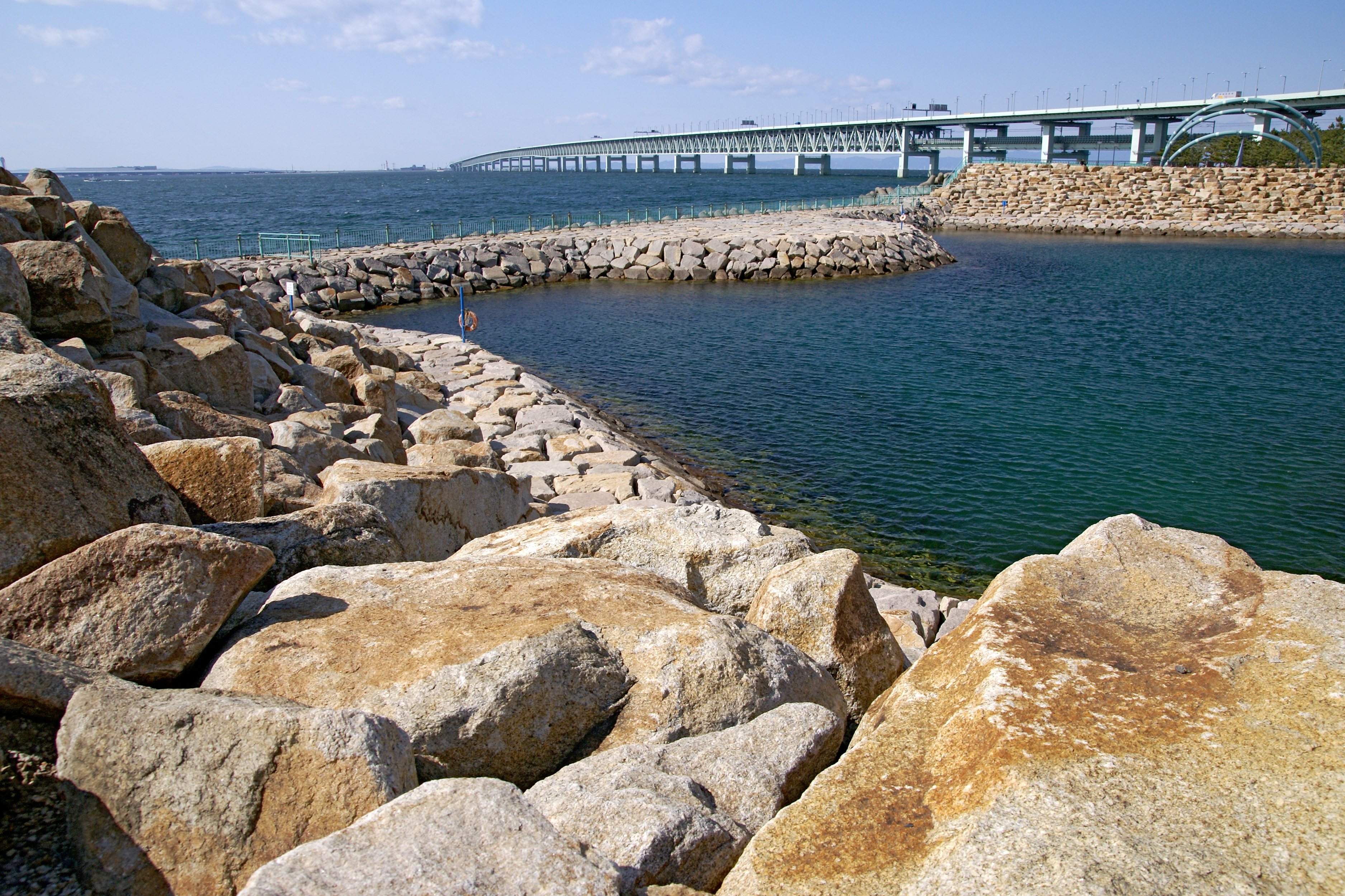 Rinku Park in Izumisano, Osaka prefecture, Japan